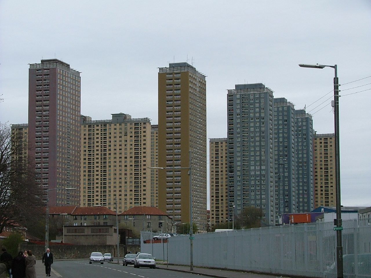 At the time of building, these blocks were the tallest residential units in Europe.